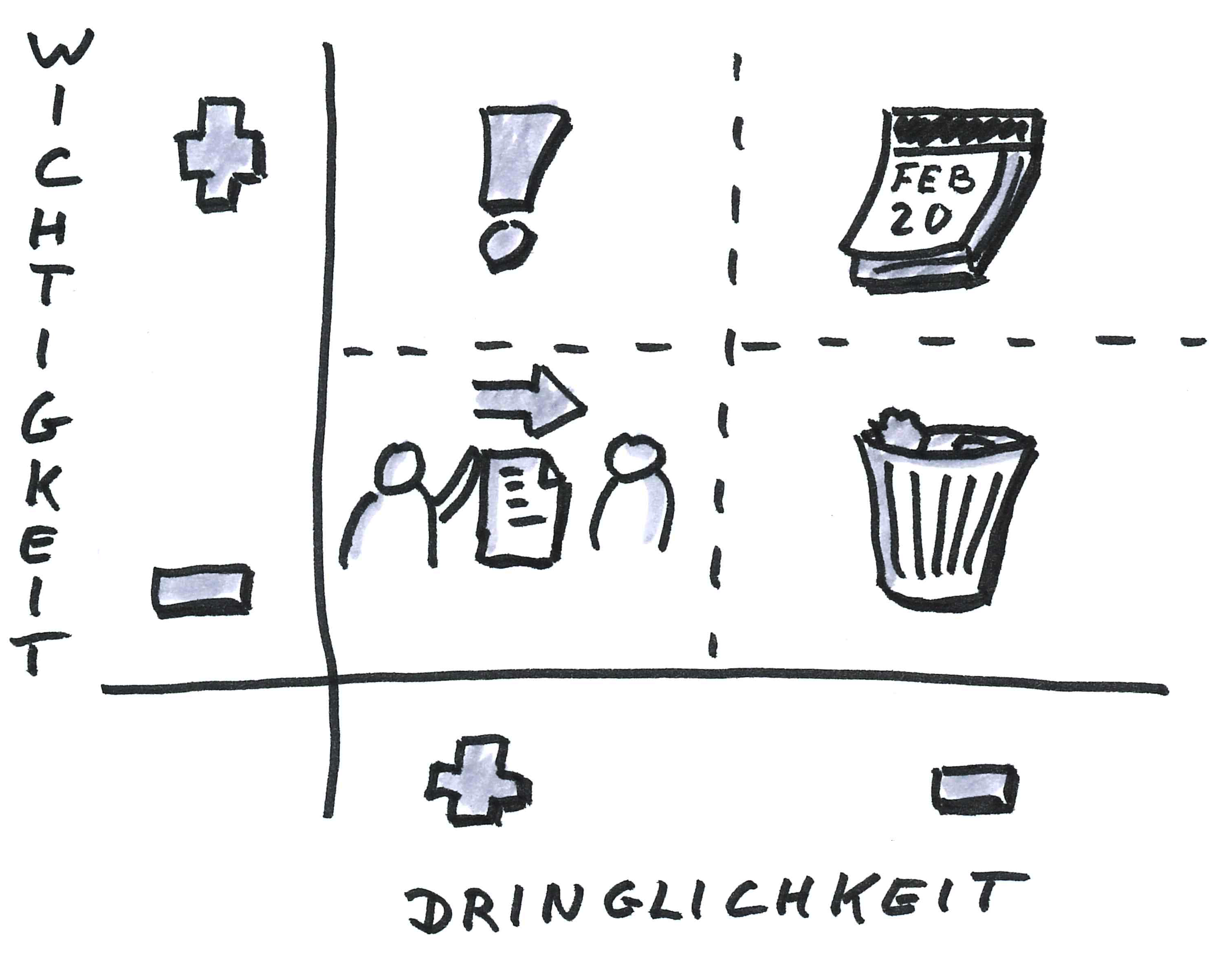 The Eisenhower Matrix. A common tool for time management systems.